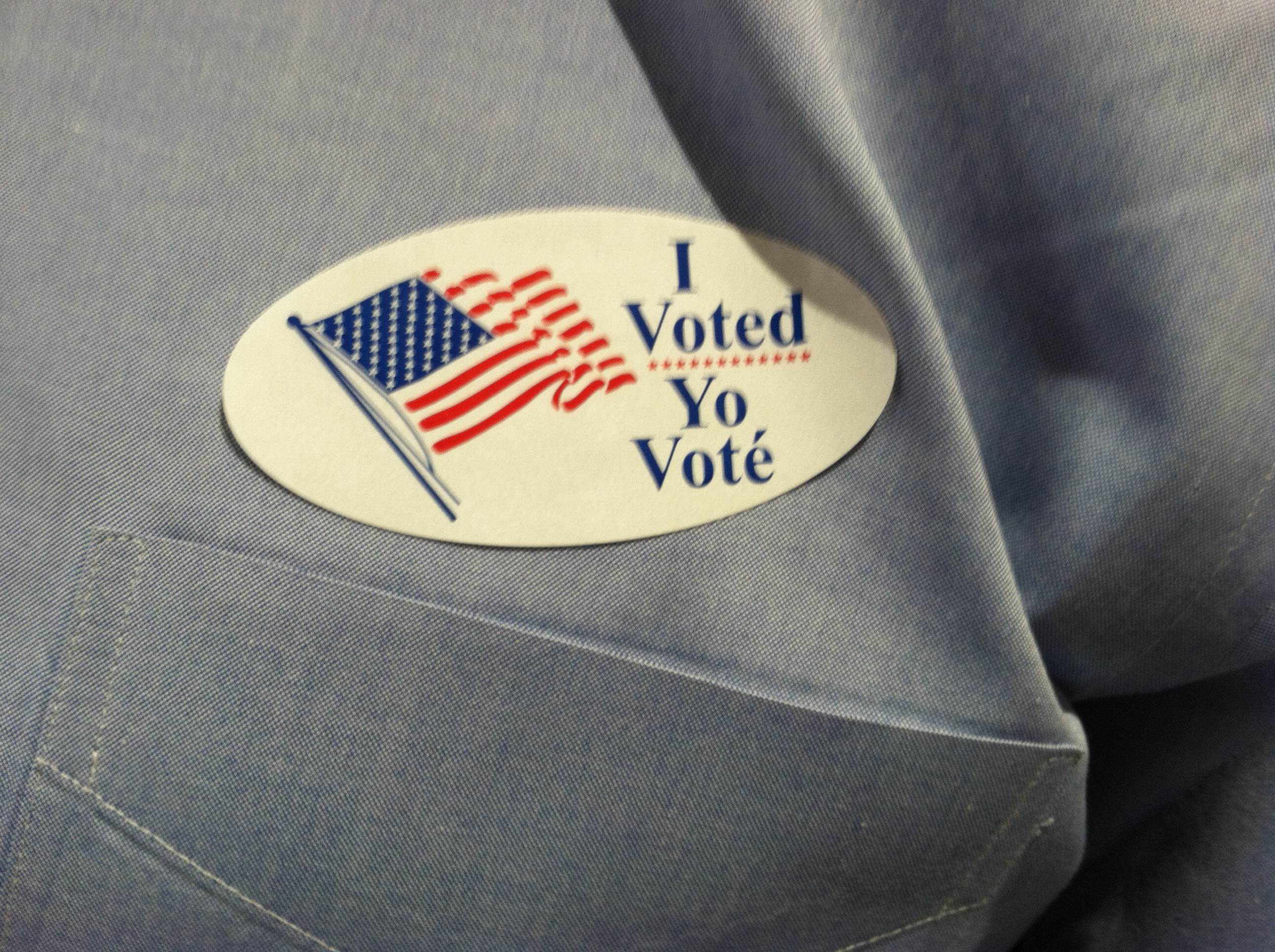 I voted on November 8 2016